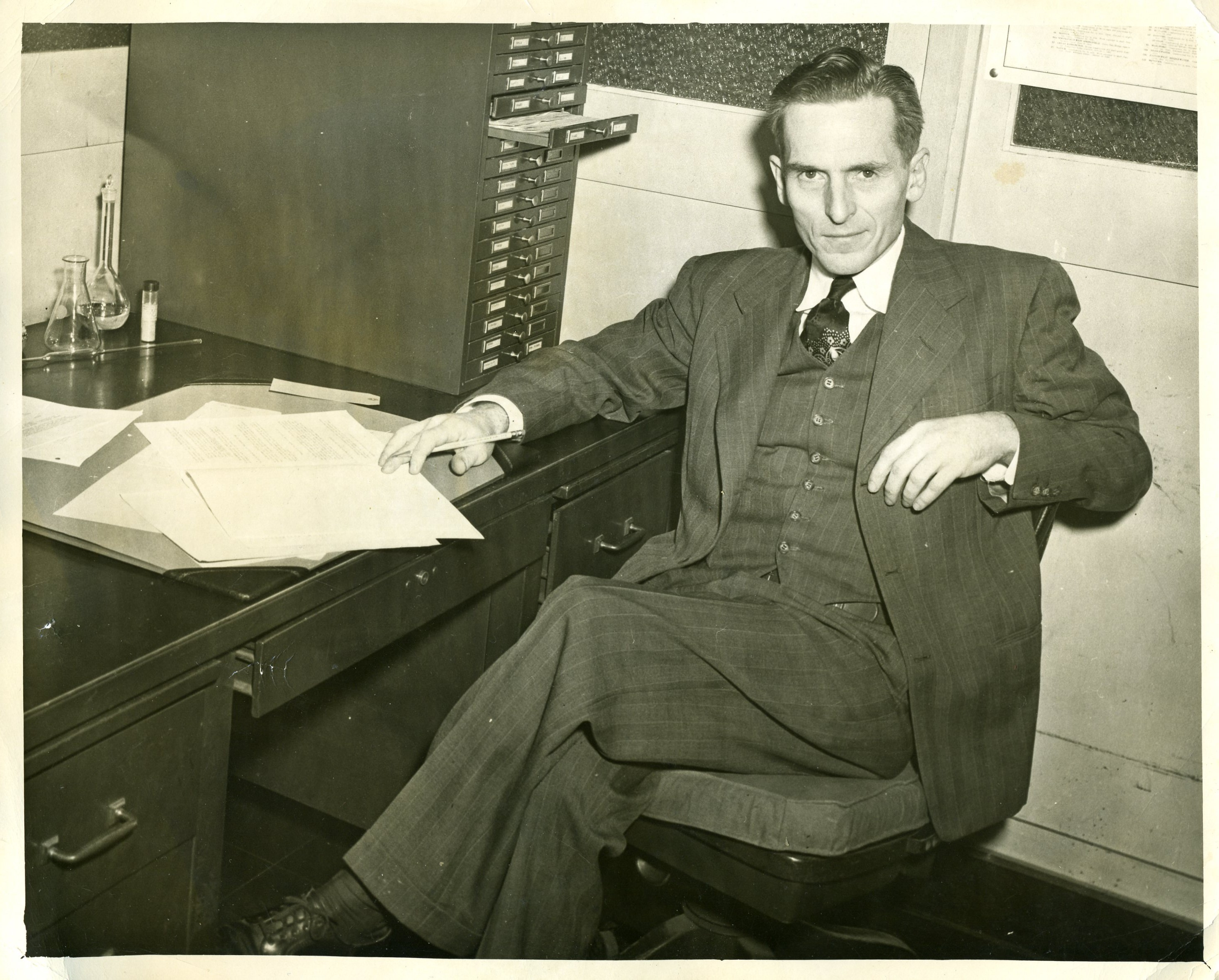 Joseph Thomas Walker in his office.